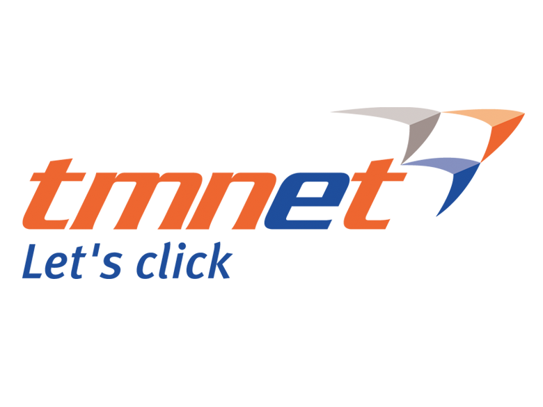 TM Net logo as used in 2005